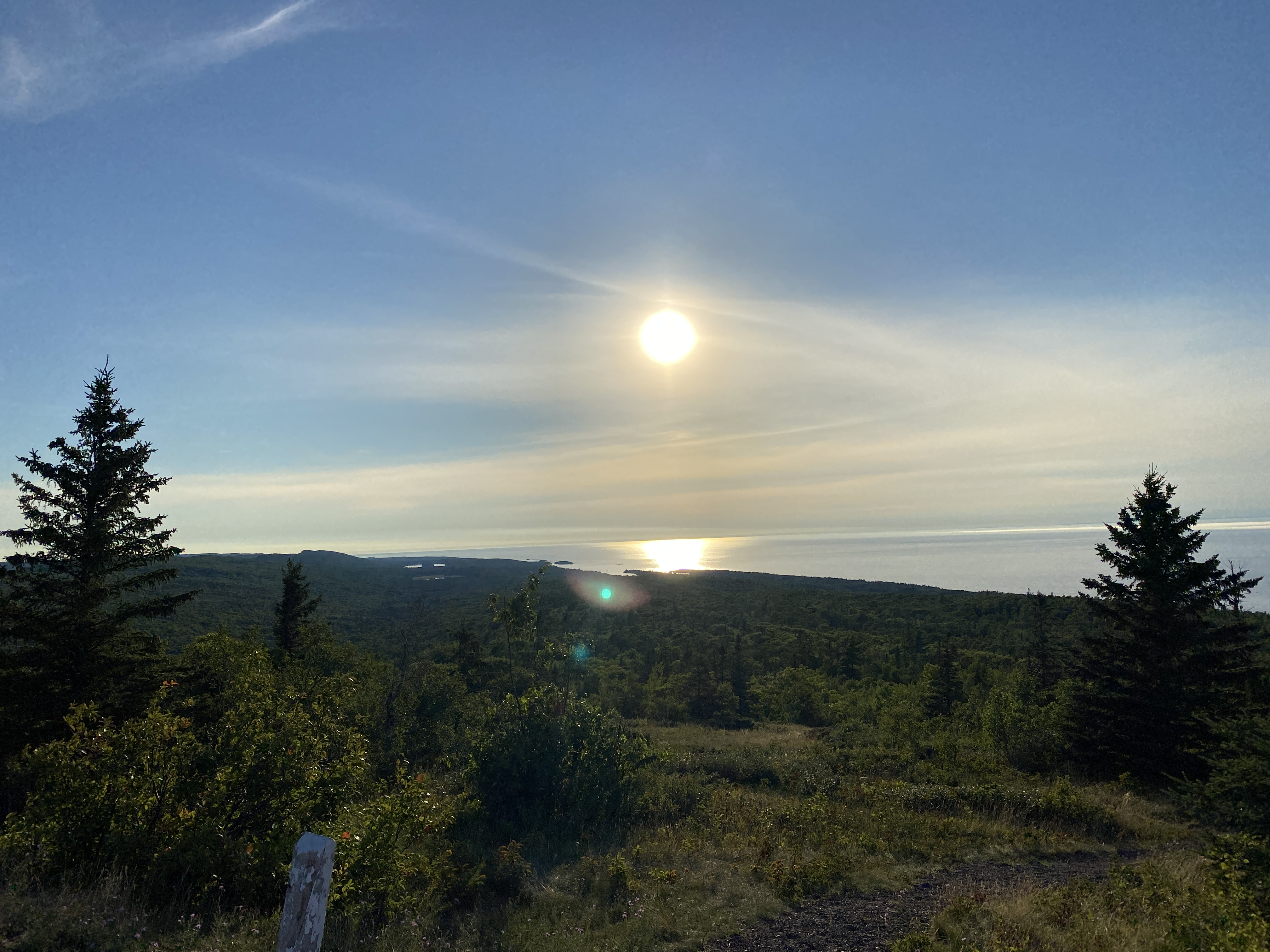 View of Lake Superior at sunset from Brockway Mountain, 08/08/20